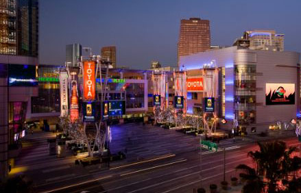 LA Live, Los Angeles, California